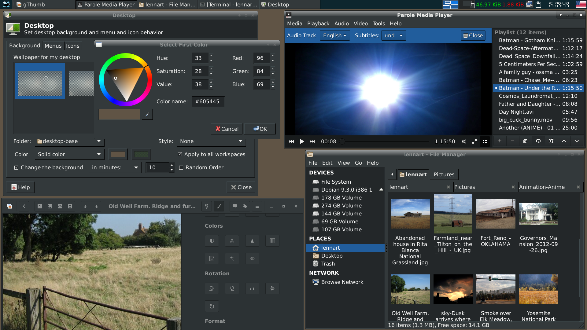 XFCE 4.12.3 on Debian 9.3 -- running applications: Thunar, Parole, gThumb, xfce4-settings-manager (Desktop) all images within the screen-shot are from Wikimedia Commons search their name to find the file page of them.